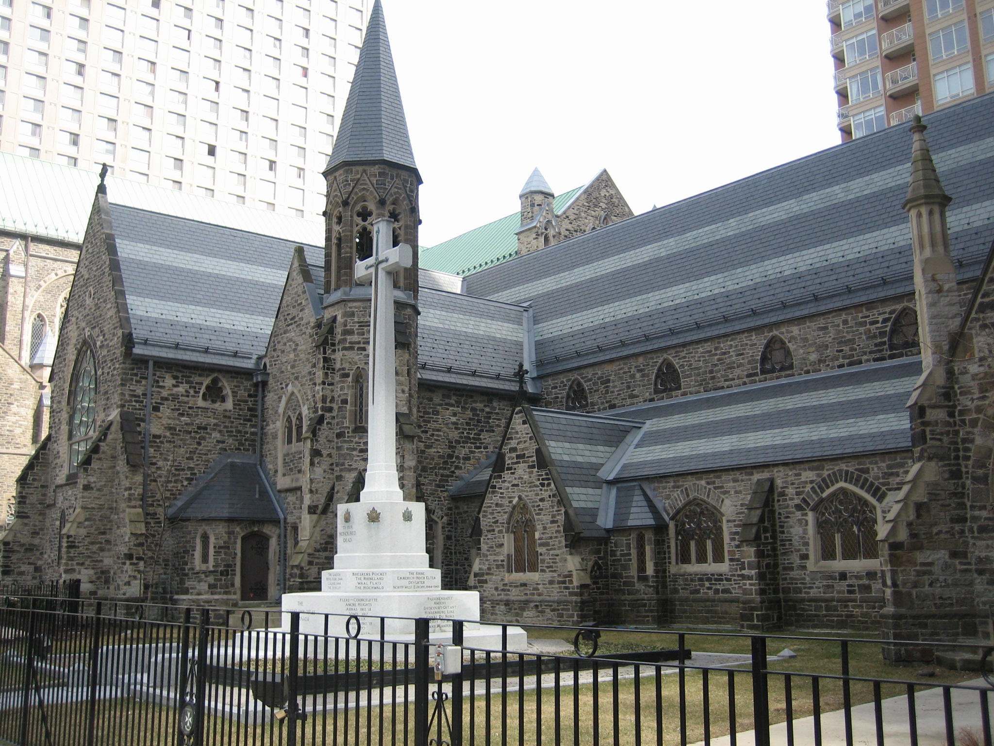 St. Paul's, Bloor Street, Toronto